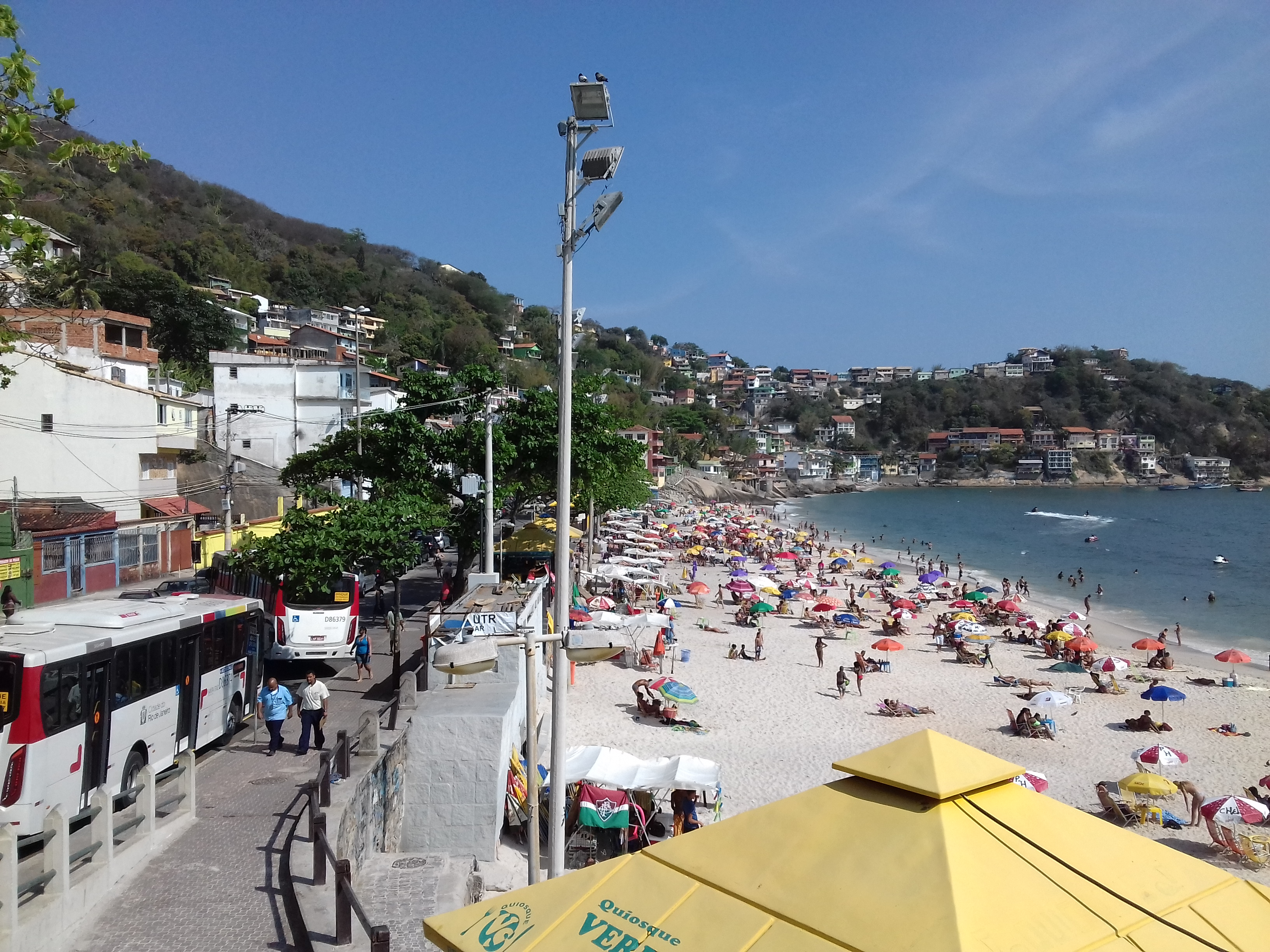 Barra de Guaratiba, main street and beach